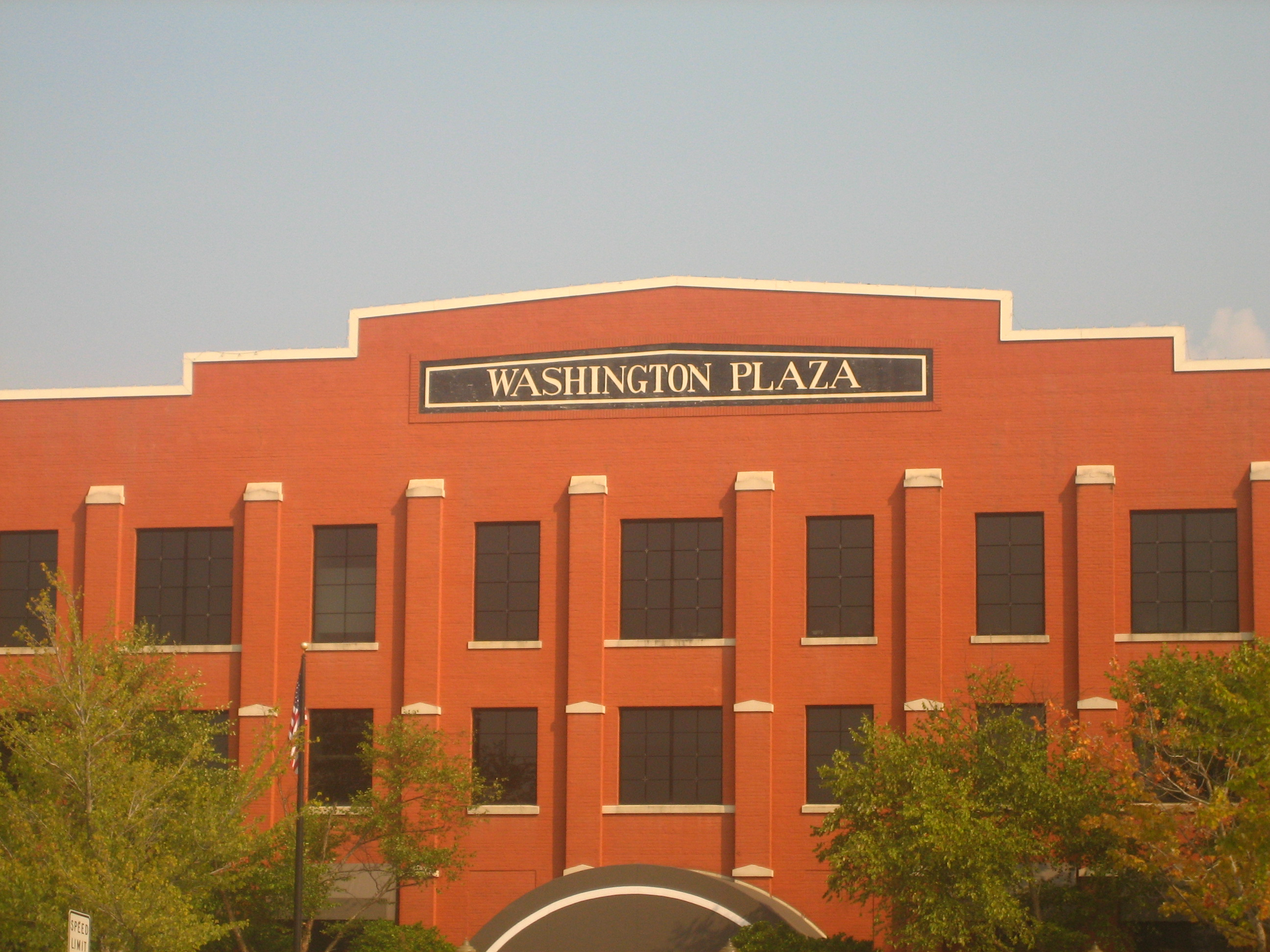 I took photo on Aug. 2, 2008.Billy Hathorn (talk) 04:10, 17 August 2008 (UTC)